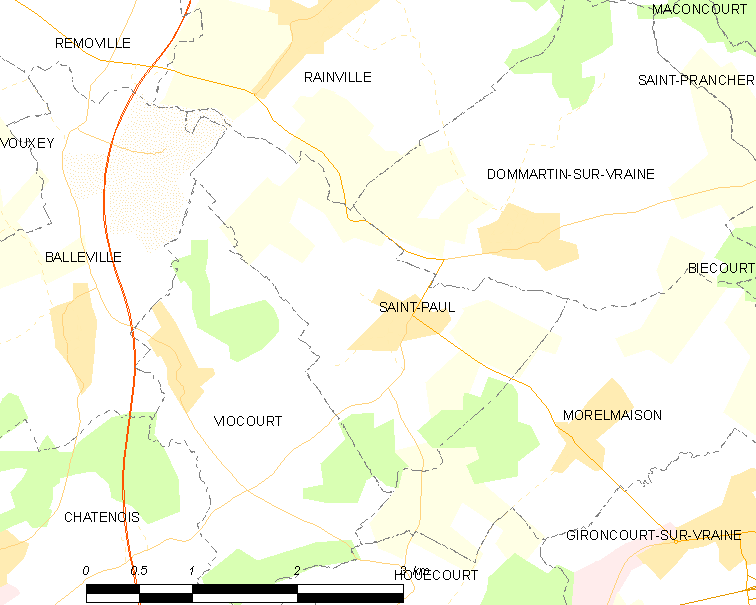 Map of French municipality Saint-Paul